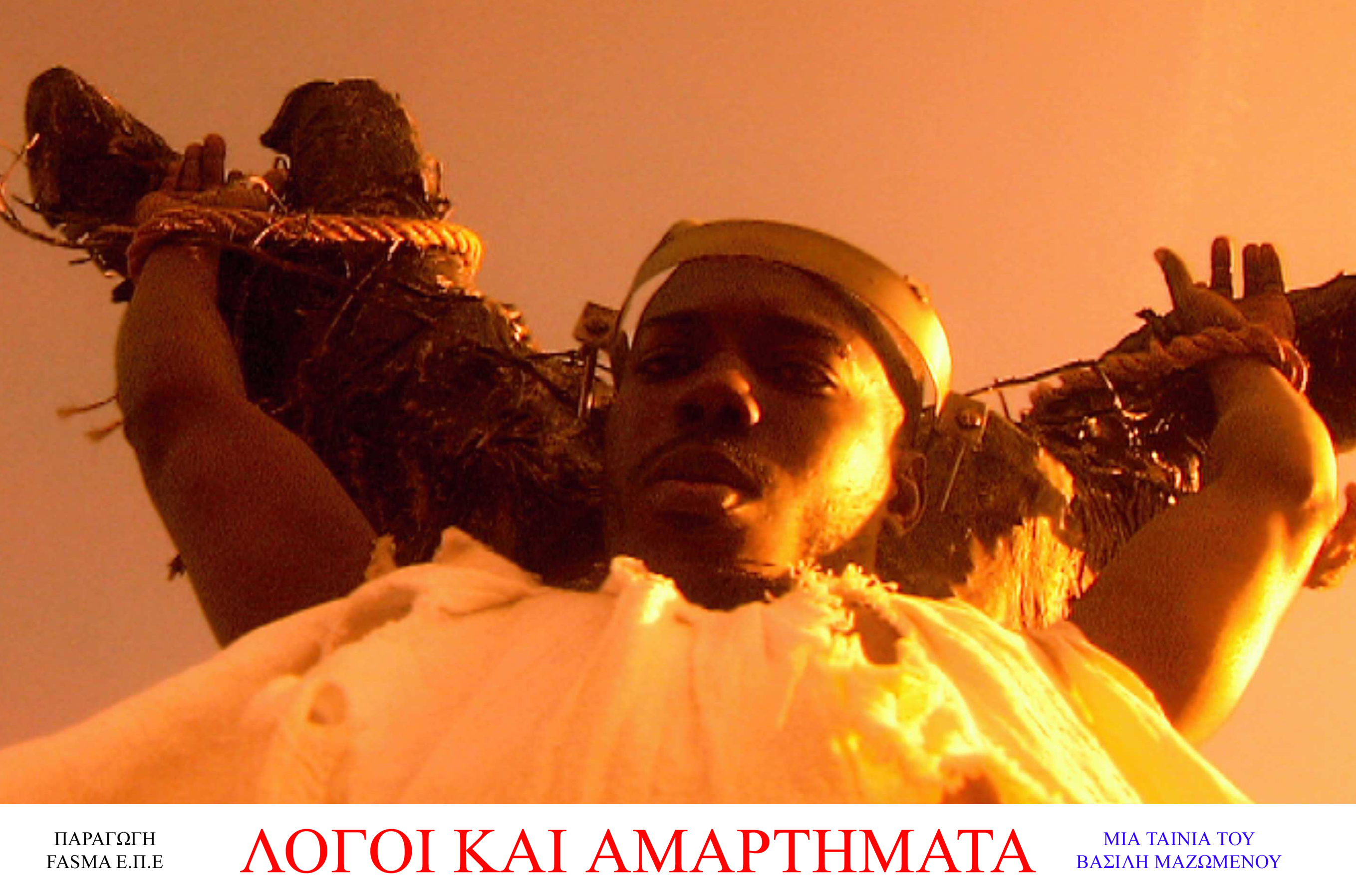 Scene from the film "words and sins" , by Vassilis Mazomenos.